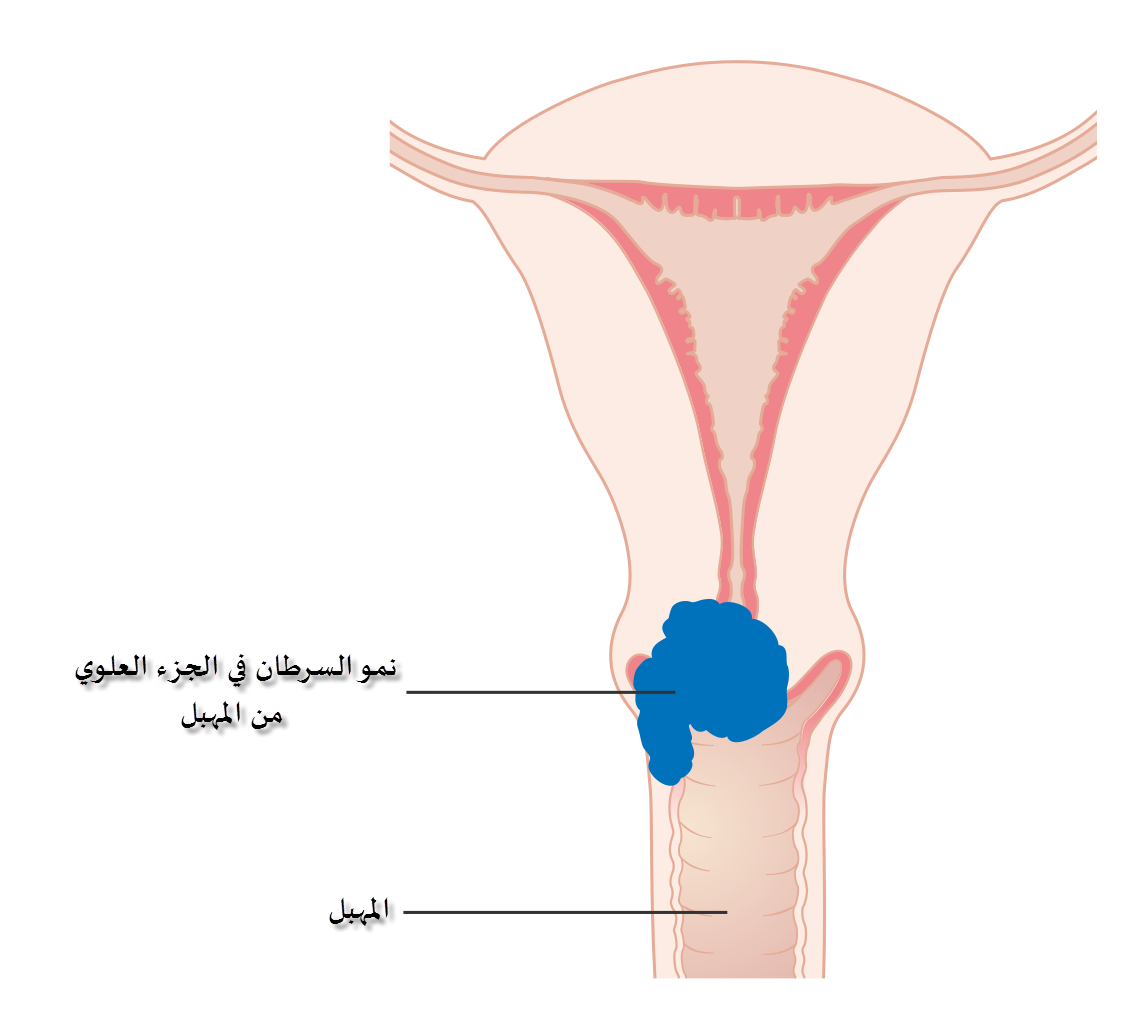 Diagram showing stage 2A cervical cancer.